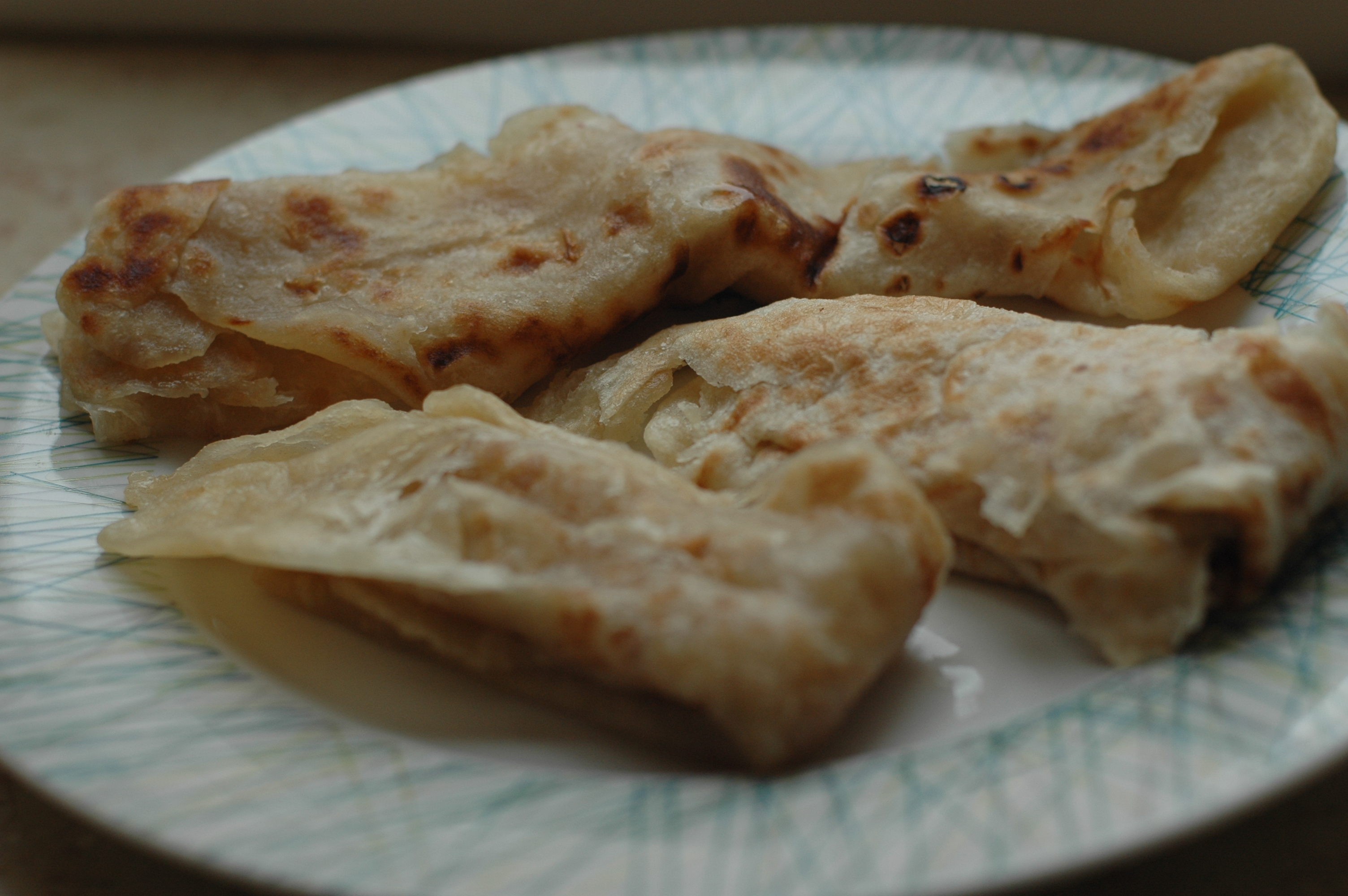 Mufletta, crepe prepared by Moroccan Jews to celebrate the Maimouna on the day after Passover